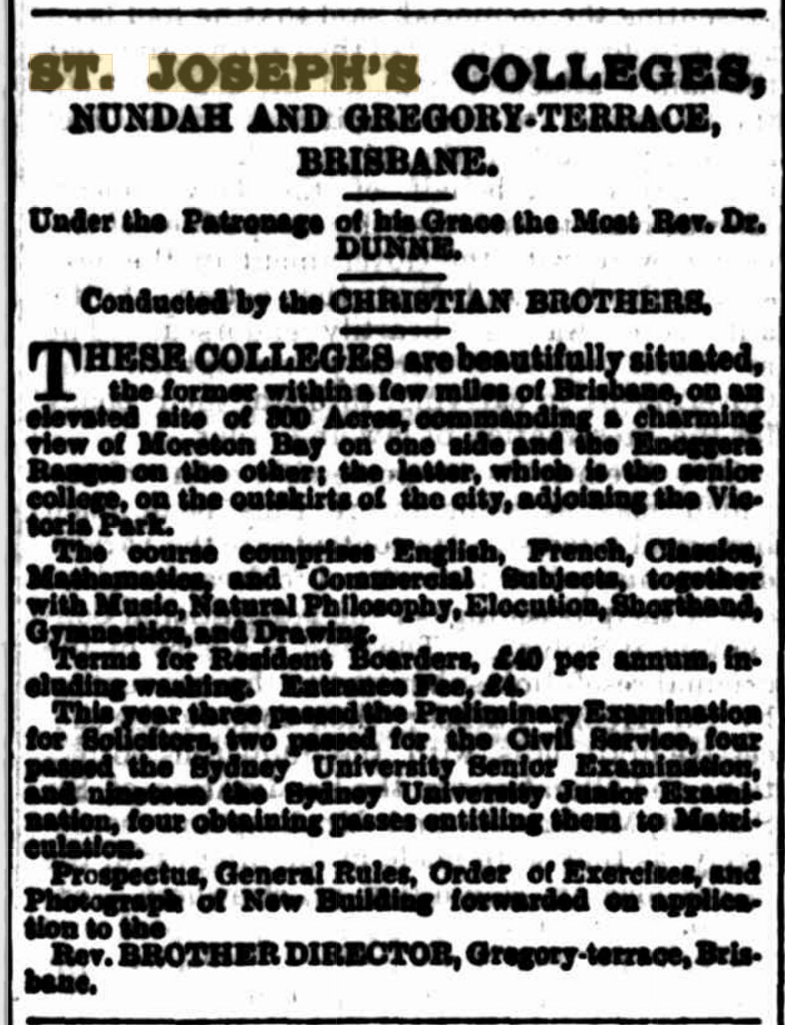 St Joseph's College advertisement, 16 May 1891 in The Queenslander